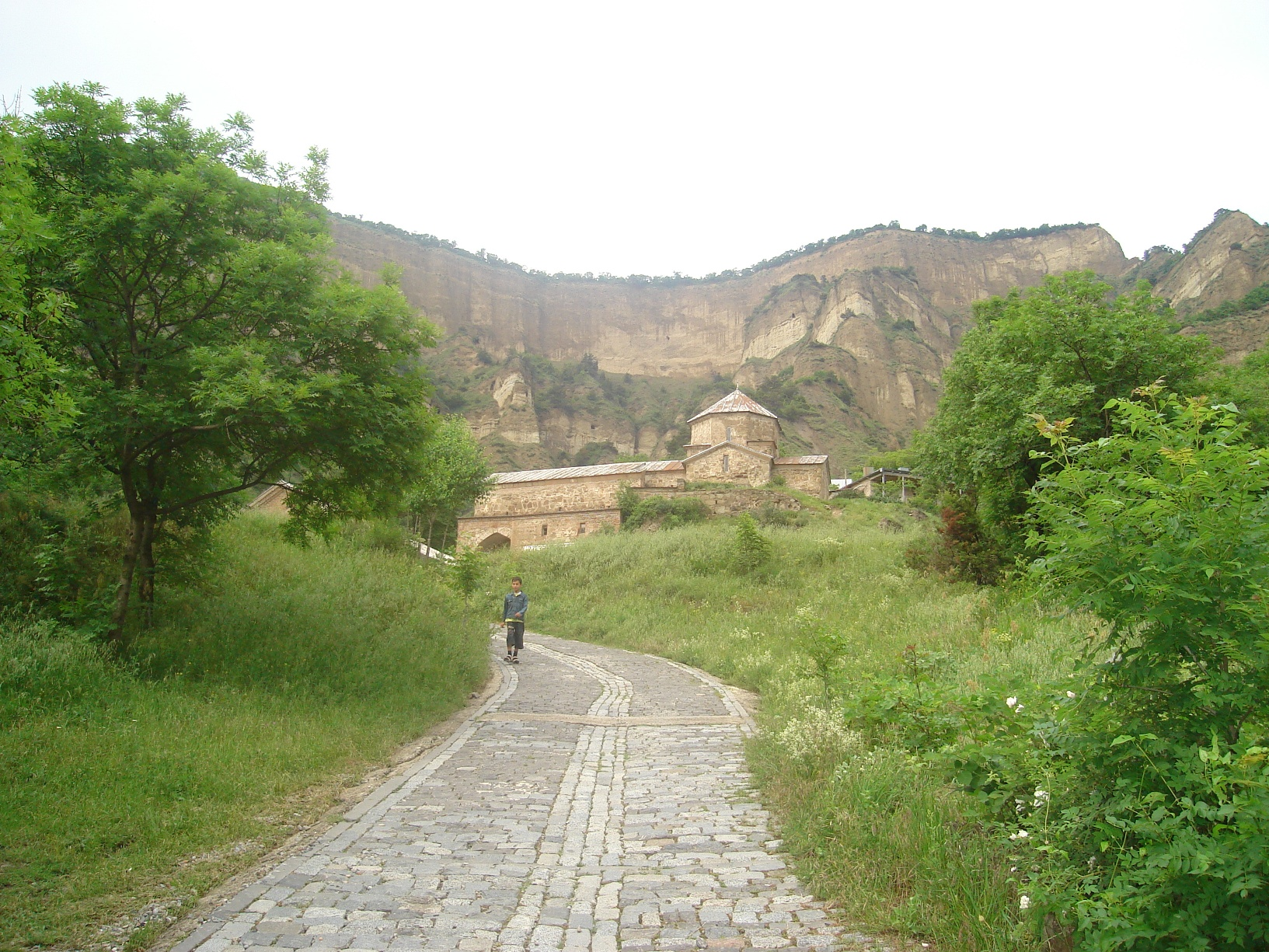 Shio-Mgvime Monastery near Mtskheta, Georgia